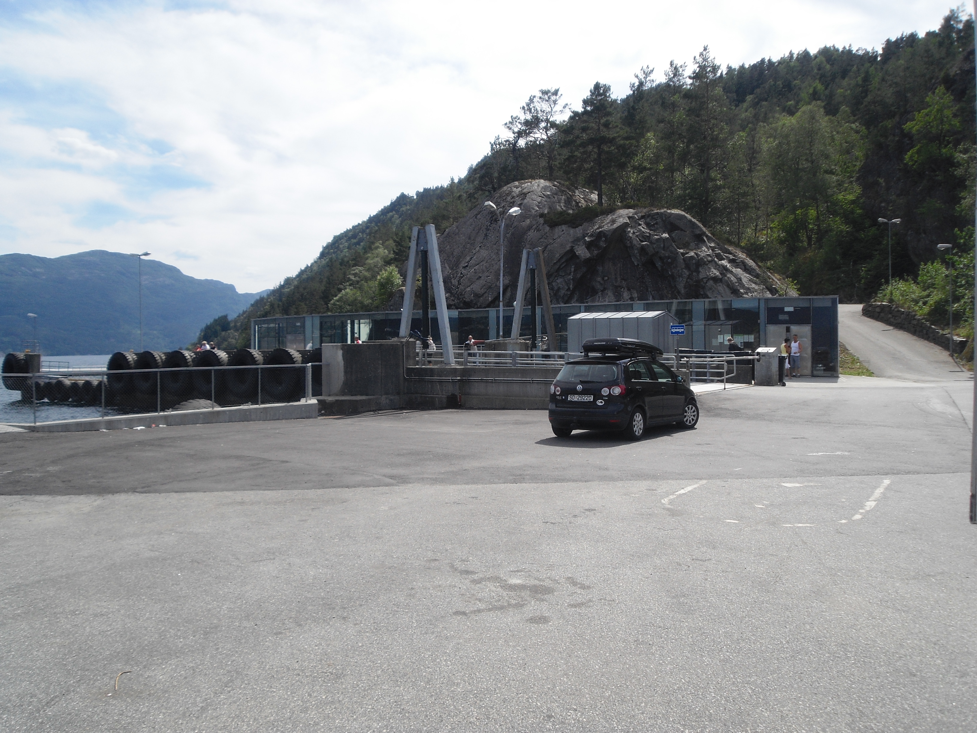 The ferry slip at Ropeid in Suldal municipality, Norway